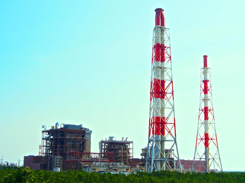 Akita Thermal Power Station in Akita, Japan.Olympus E-M5 + M.Zuiko Digital ED 12-50mm F3.5-6.3 EZ